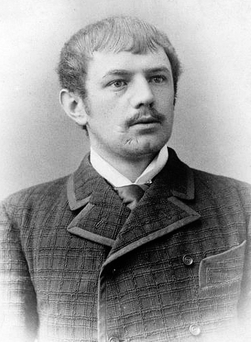 German NSDAP polician Dietrich Eckart (1868-1923)